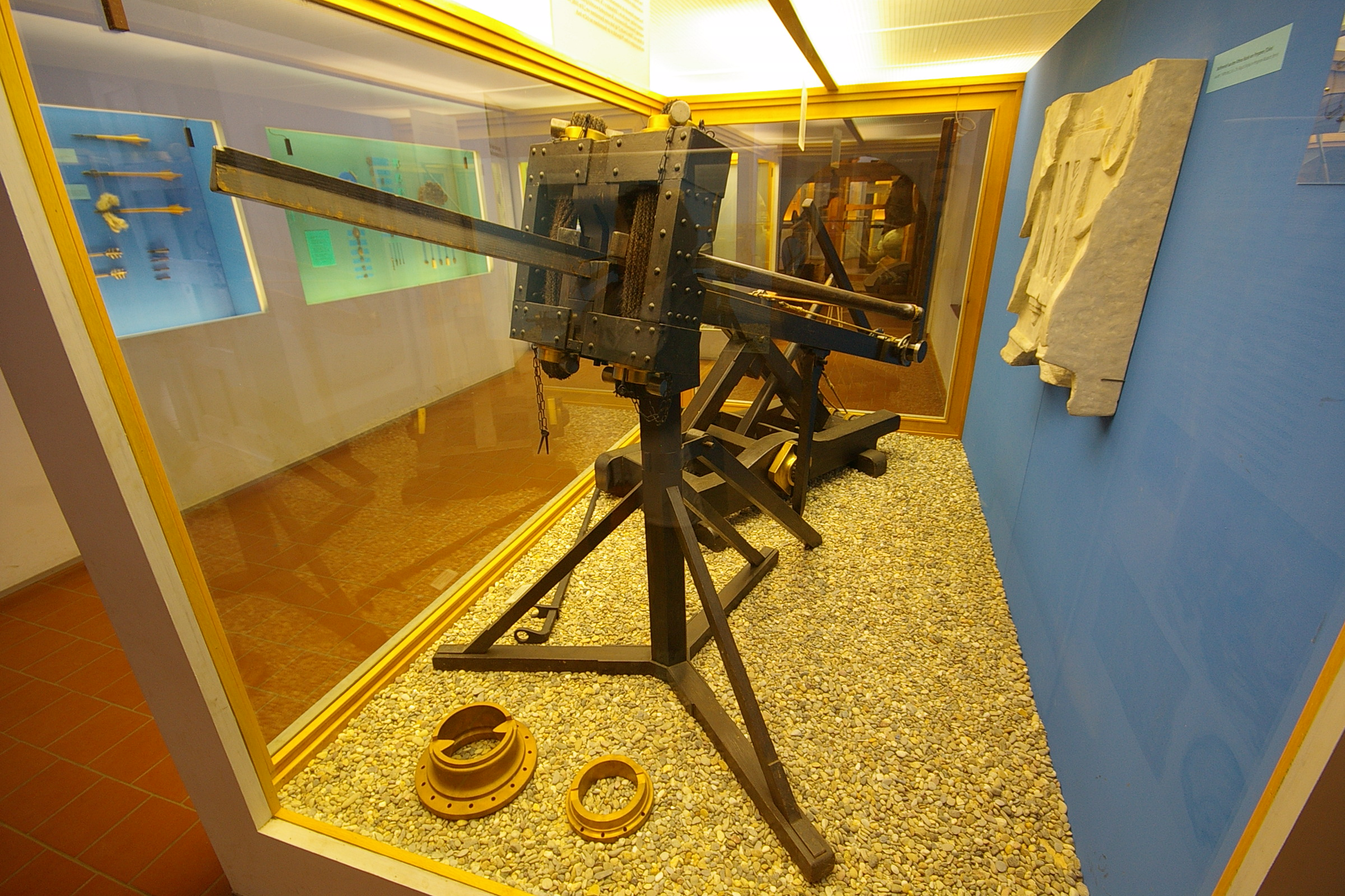 Ampurias catapult, late 2nd/early 1st century BC. Reconstruction by Erwin Schramm (1856-1935), a German engineer, in the Saalburg Museum, Hesse, Germany